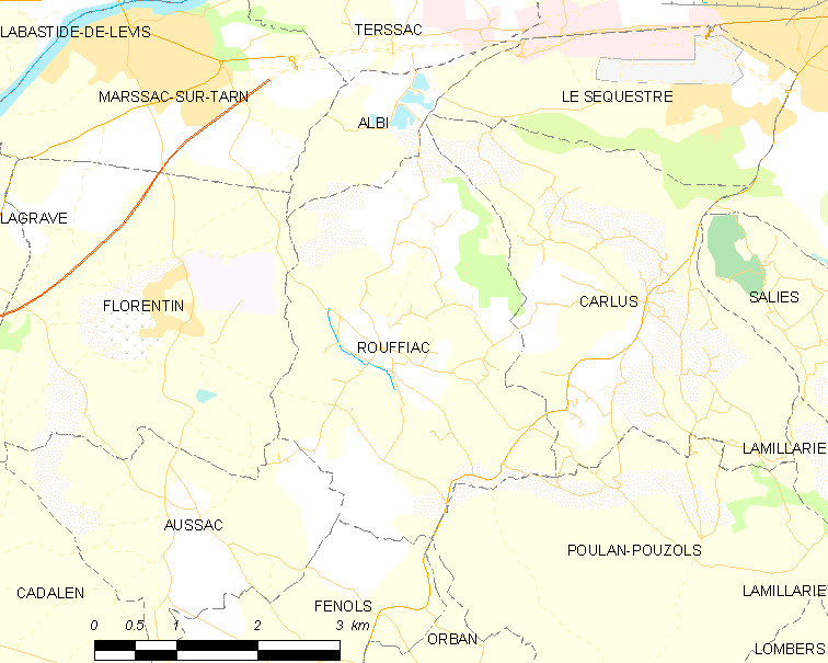 Map of French municipality Rouffiac